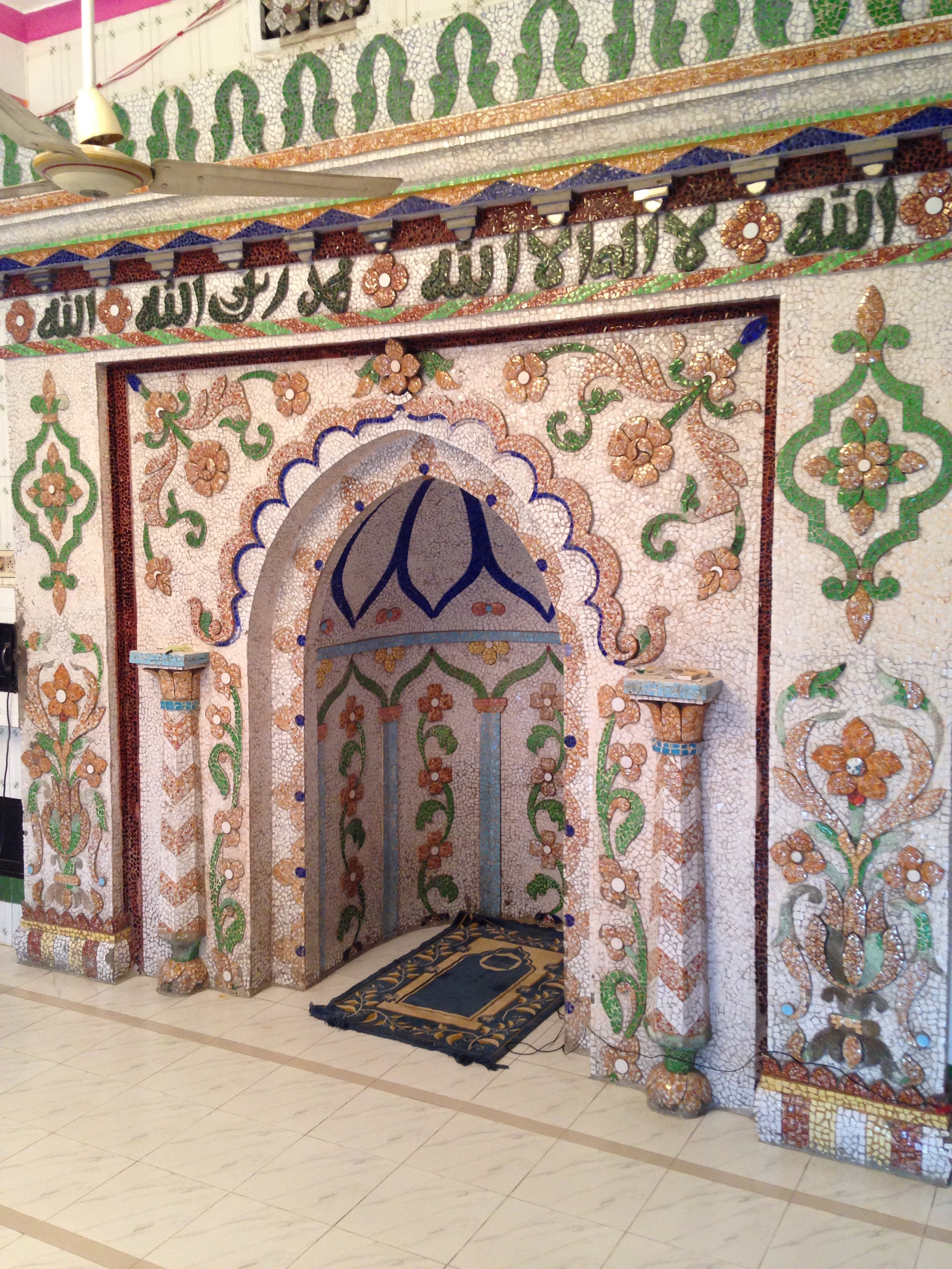 This is inside of Asrafia Jame Masjid Mihrab adding in Architectural elements and Style .